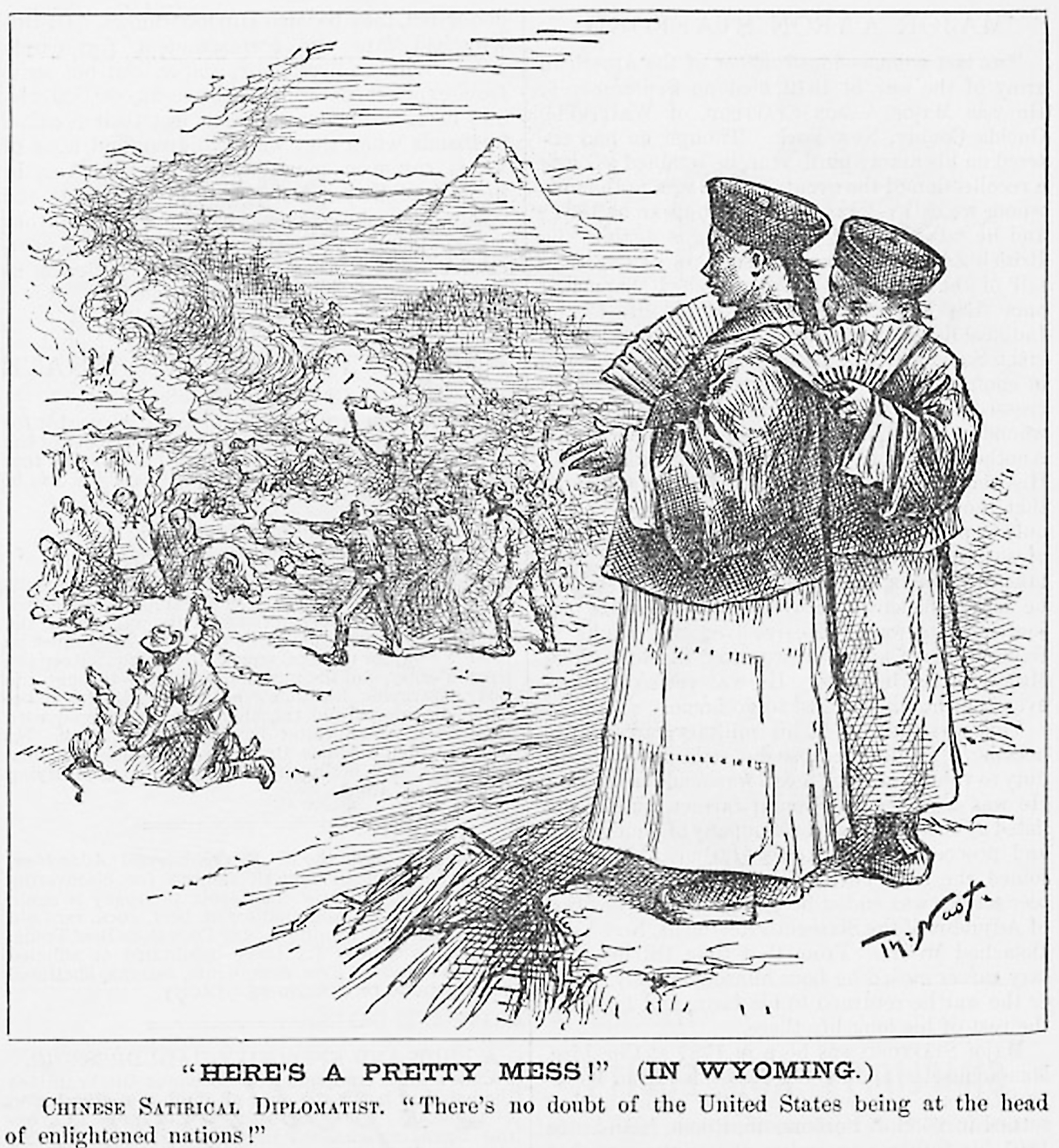 Editorial Cartoon by Thomas Nast, Harper's Weekly, 1885.